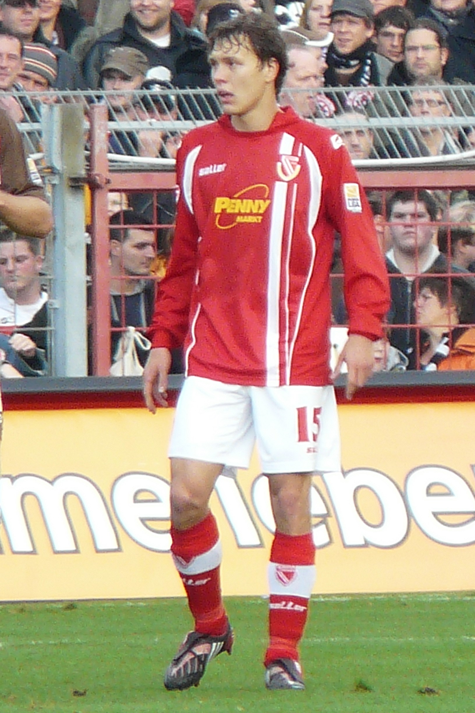 Alexander Bittroff as Player from Energie Cottbus